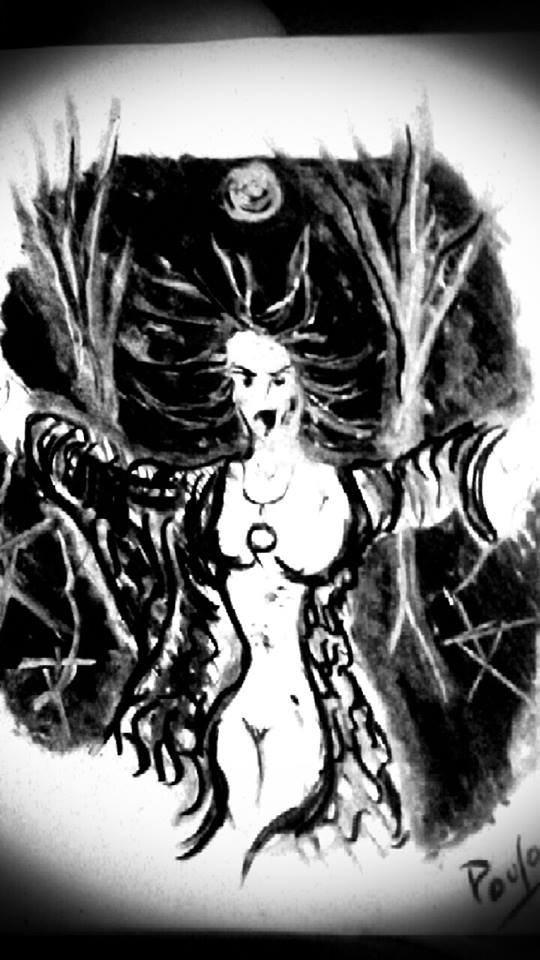 Elly Kedward, persona identificada por la leyenda como la Bruja de Blair